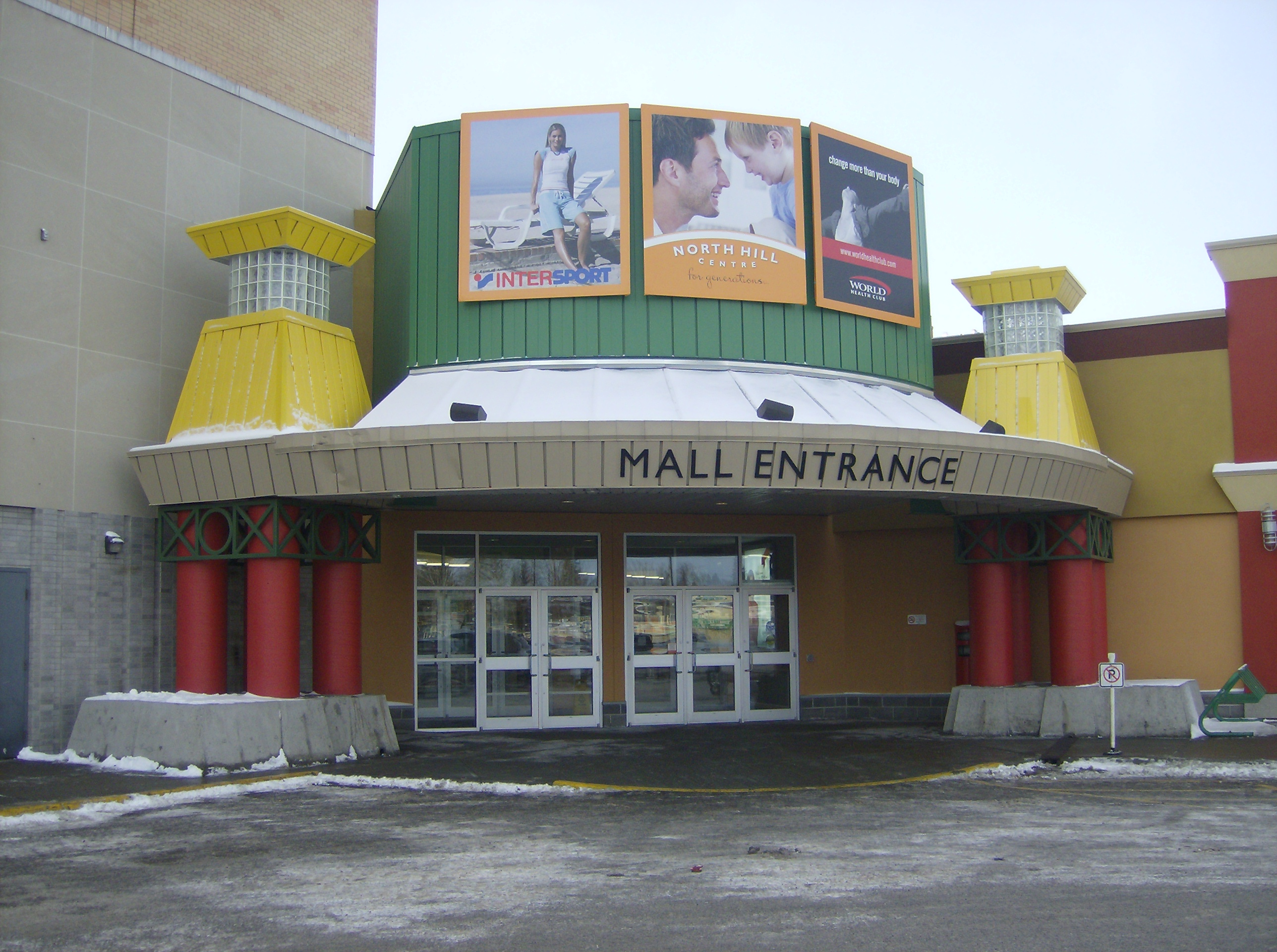 North Hill Centre in Calgary, Alberta, Canada. This an the entrance to mall from the North (16 Avenue NW) side of the building.